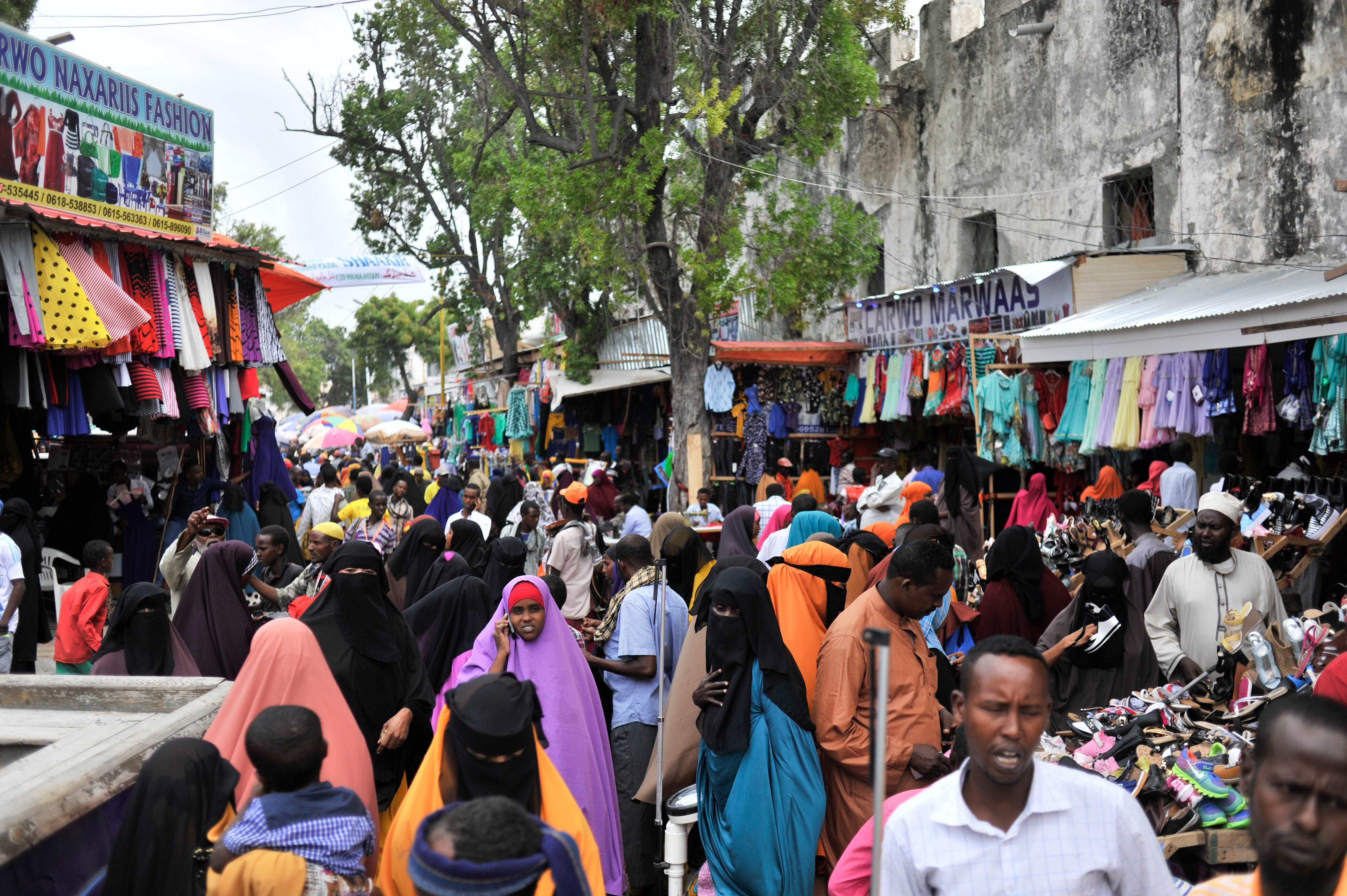 Shoppers in Hamarwayne market in Mogadishu Somalia on July 04, 2016 ahead of Eid el-Fitr celebrations. AMISOM Photo / Ilyas Ahmed